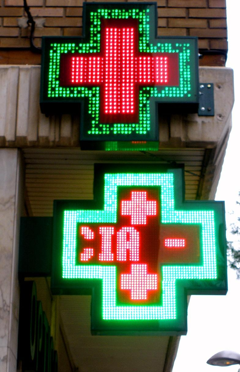 Farmacia en Zaragoza (España)